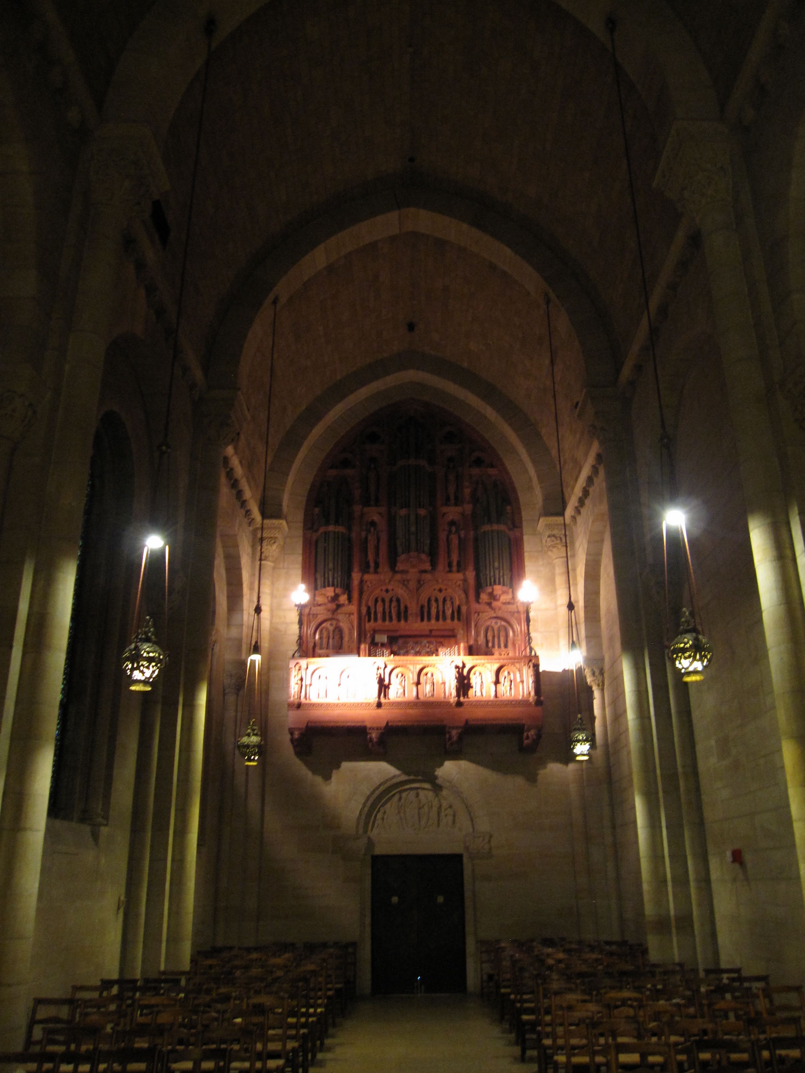 Riverside Church